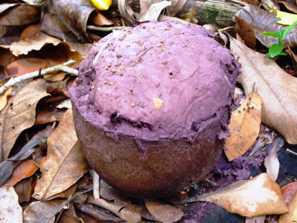 I took this photo of the fungi growing on my lawn. I sent the fungus itself to G.P. Guymer, the Director of the Queensland Herbarium in Brisbane who kindly identified it (letter 7 February 2010).